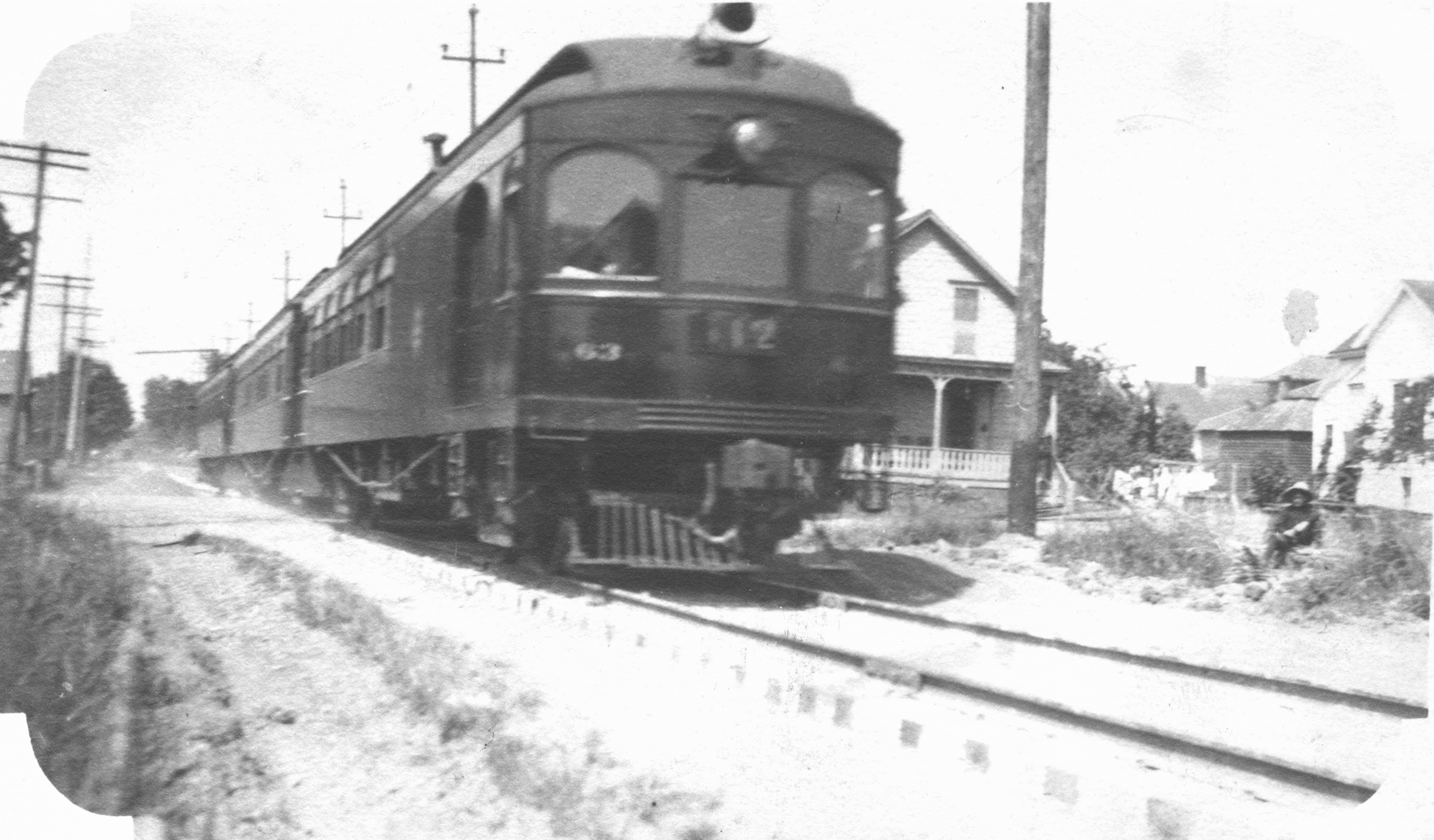 Original Collection: Gerald W. Williams Collection You can find this image by searching for the item number by clicking here. Want more? You can find more digital resources online. We're happy for you to share this digital image within the spirit of The Commons; however, certain restrictions on high quality reproductions of the original physical version may apply. To read more about what “no known restrictions” means, please visit the Special Collections & Archives website, or contact staff at the OSU Special Collections & Archives Research Center for details.